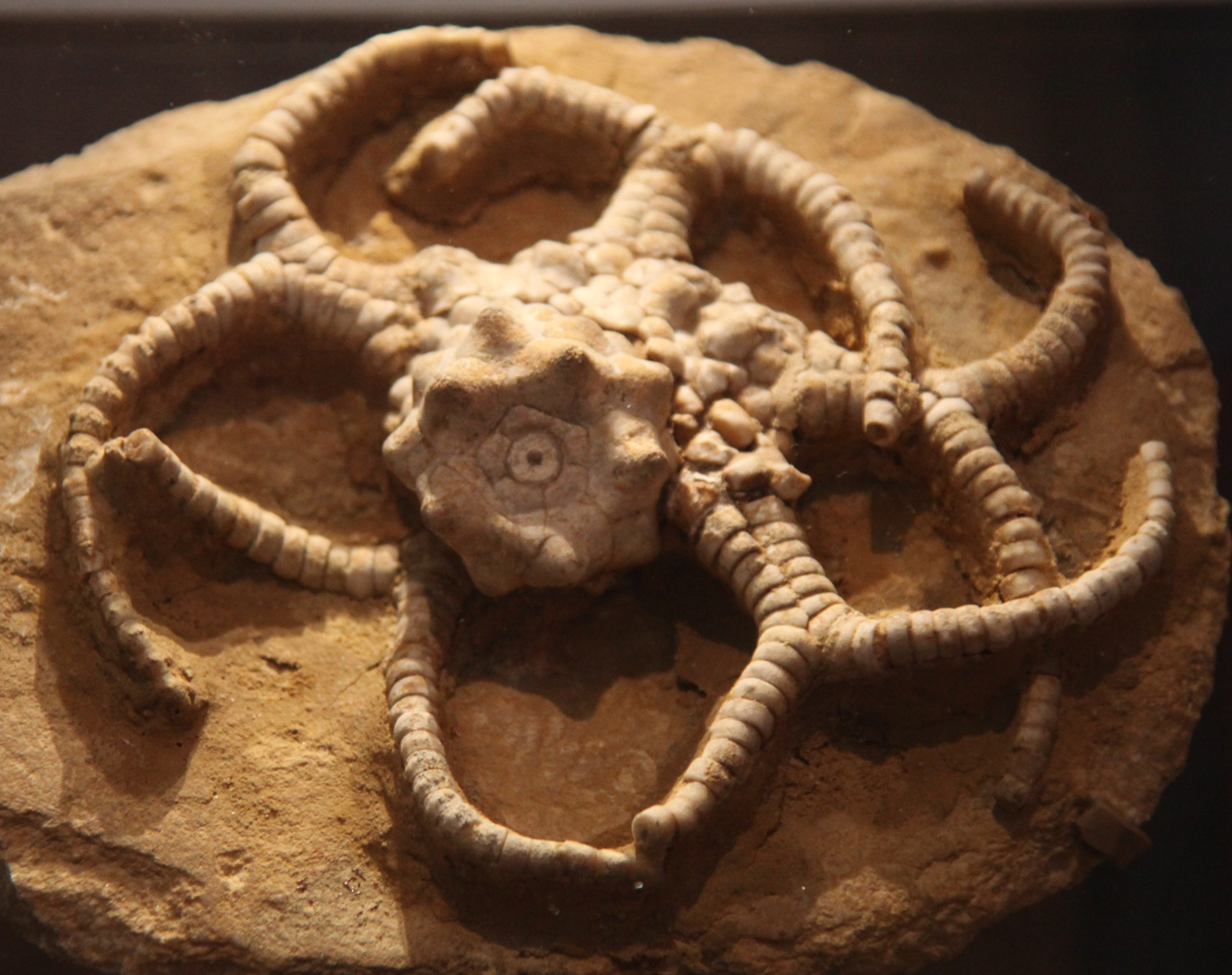 A fossil Gilbertsocrinus typus -- an extinct crinoid -- on display in the Sant Hall of Oceans in the Smithsonian Museum of Natural History. Crinoids are animals like sea lillies. They usually have a stalk, on top of which is a broad disk, from which arms extend. They sweep the sea for food particles. This particular crinoid lived in the early Mississippian era, about 359 to 318 million years ago. This fossil was found in the Borden Formation in Kentucky.